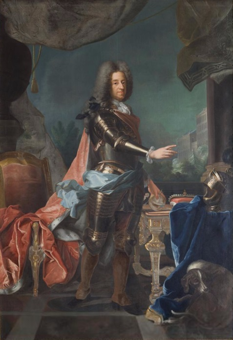 Portrait of Maximilian II Emanuel, Elector of Bavaria (1662-1726)